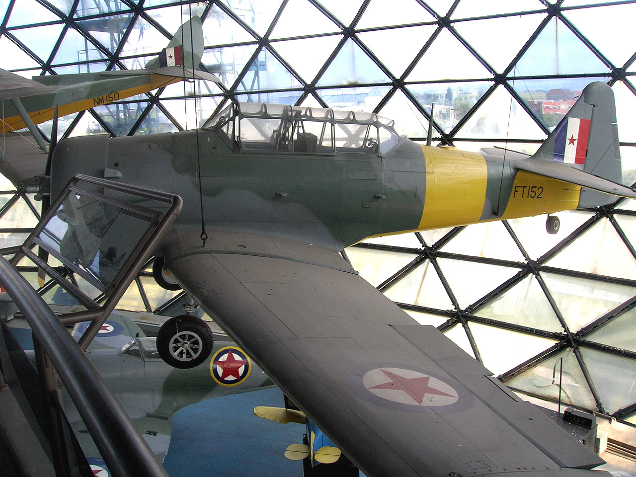 T-6G Texan in Belgrade Aviation Museum. Author of the picture is user Marko M.